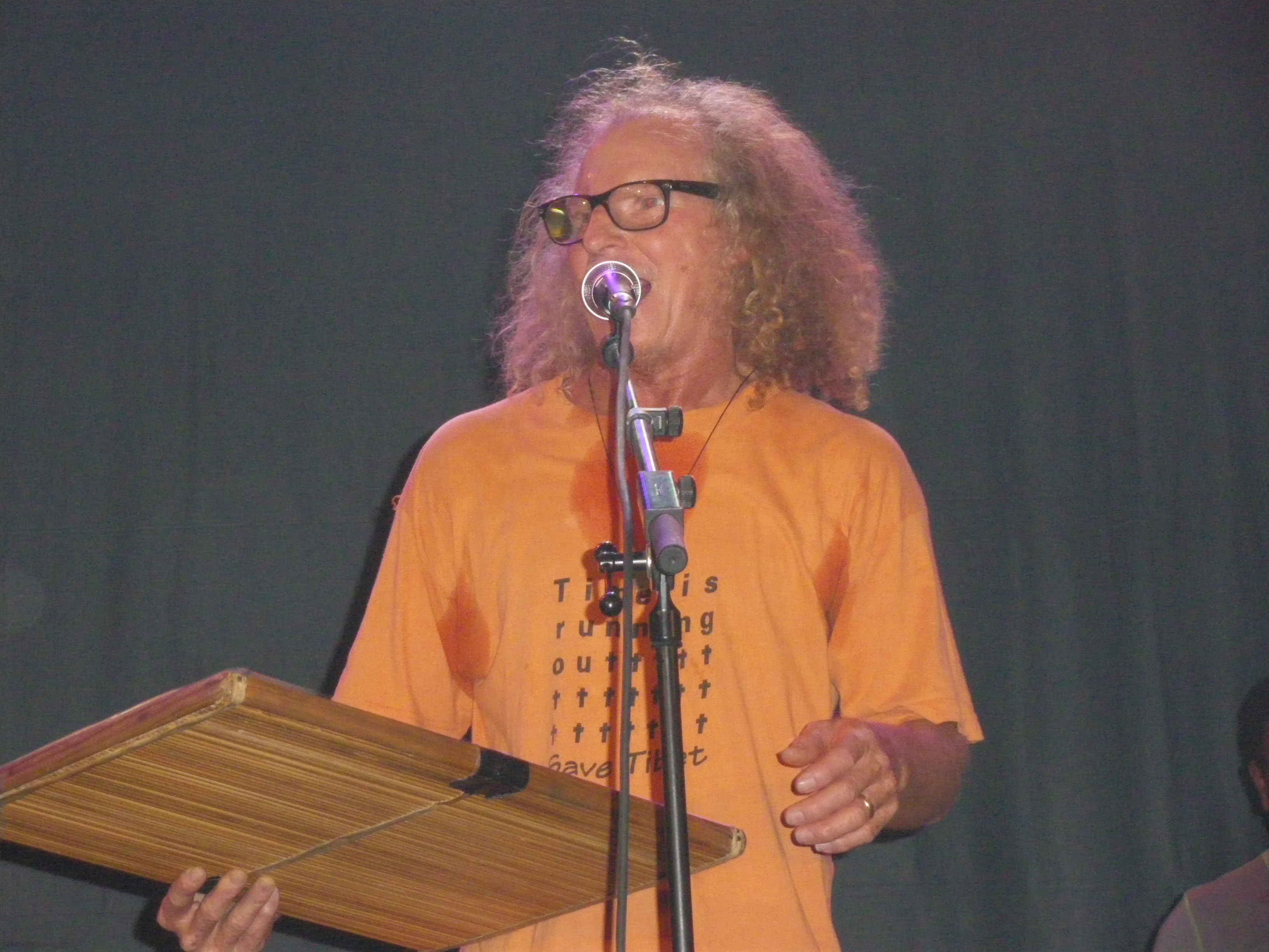 Danyèl Waro, musician, specializing in maloya a genre of Réunionese folk music.